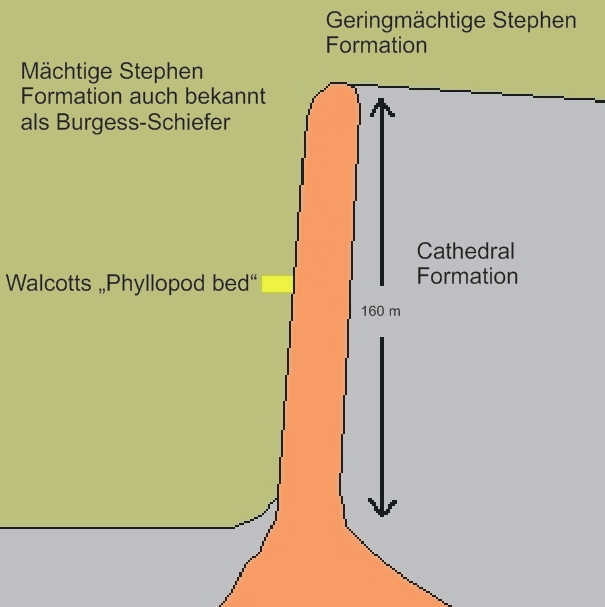 Geology of Burgess Shale, with position of Walcott's "Phyllopod bed". Ref: Miall, A.D. (2008). "The Paleozoic Western Craton Margin". The Sedimentary Basins of the United States and Canada. Elsevier. pp. 191-194. ISBN 0444504257. Retrieved 2009-04-26.